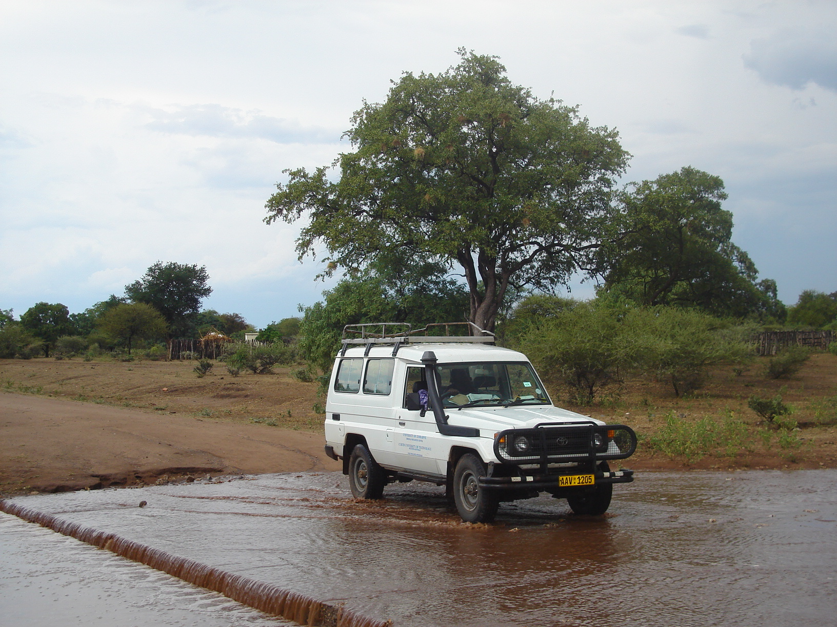 A flooded river in the Dendele area, Zimbabwe